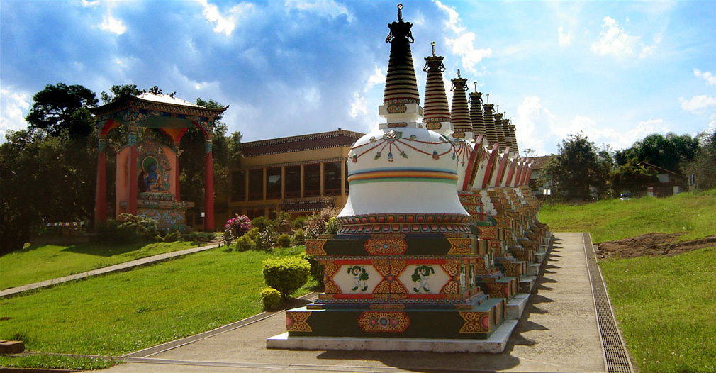 Templo Budista Chagdud Khadro Ling - Três Coroas - RS